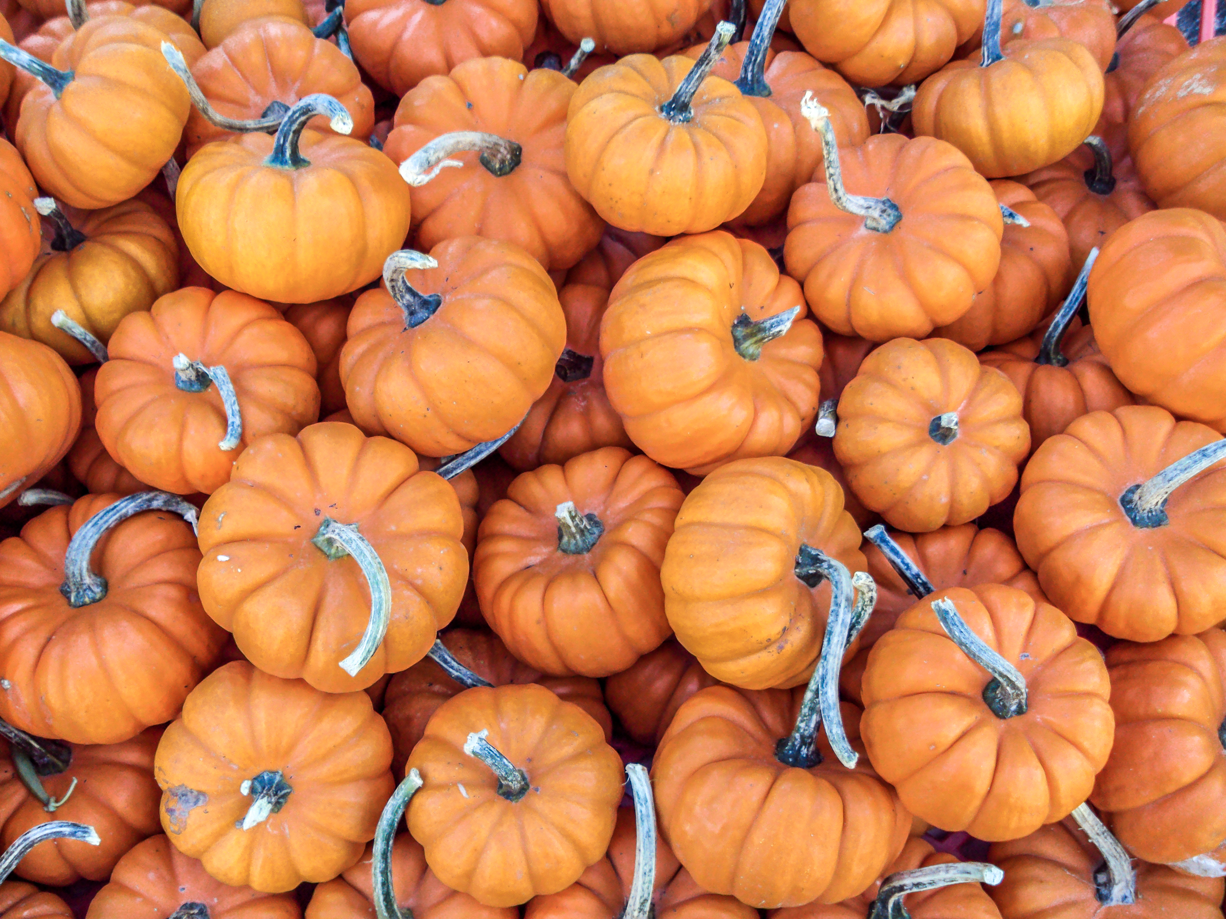 A bunch of "mini" pumpkins at an open-air farmers' market.